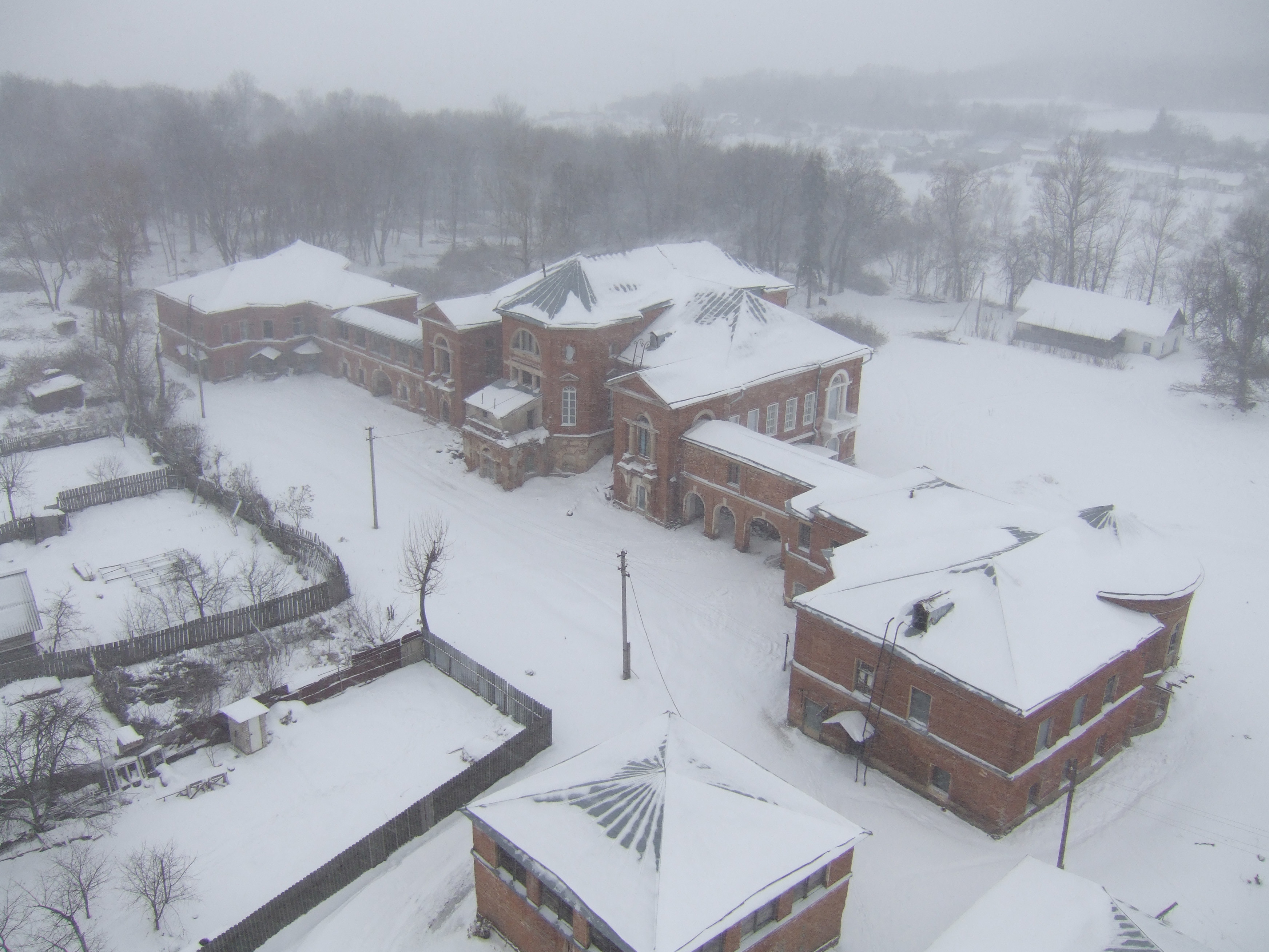 Nechaevs Palace in Polibino Lipetsk Oblast 2008